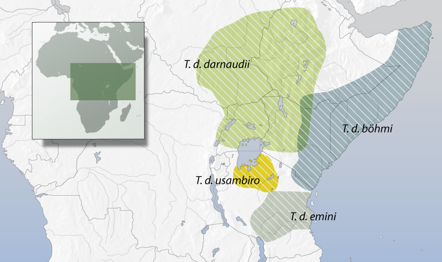 Distribution and subspecies of Trachiphonus d’arnaudii (Source: W.Wickler: Artunterschiede im Duettgesang zwischen Trachiphonus d’arnaudii usambiro und den anderen Unterarten von T. d’arnaudii, 1973, J. Orn. 114, 123-128)